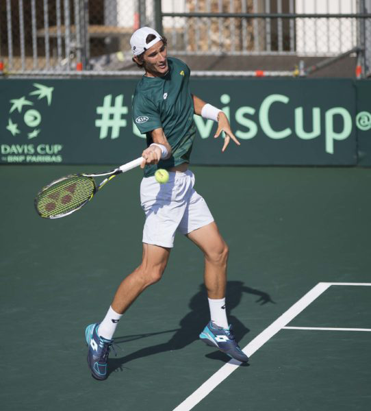 Lloyd Harris in Davis Cup